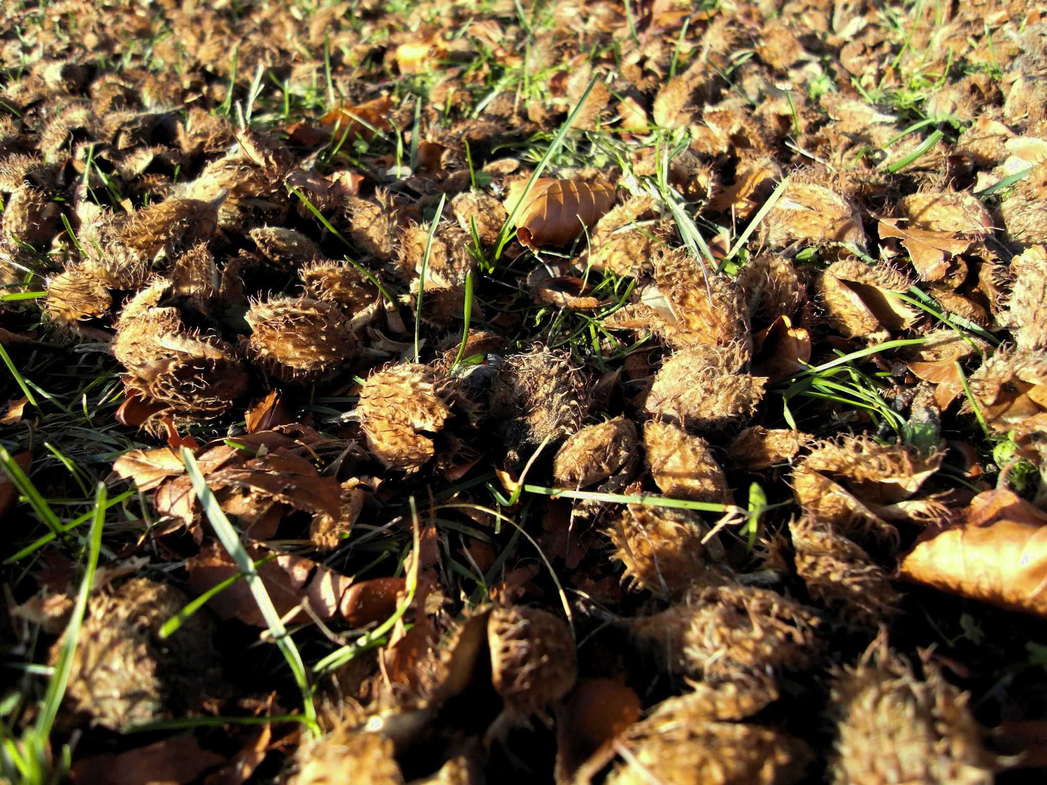 Beechnuts laying on the grass by the beech they fell from during autumn. There are many, many more beechnuts by the tree than the picture shows. The picture is taken at Beijer's Park in the city of Malmo 5 November 2013.